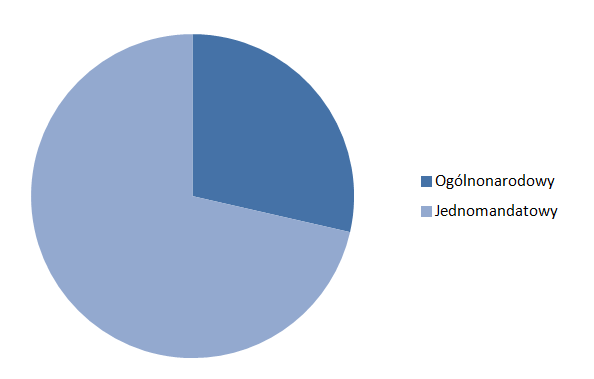 MANDATY PAS MOLDOVA